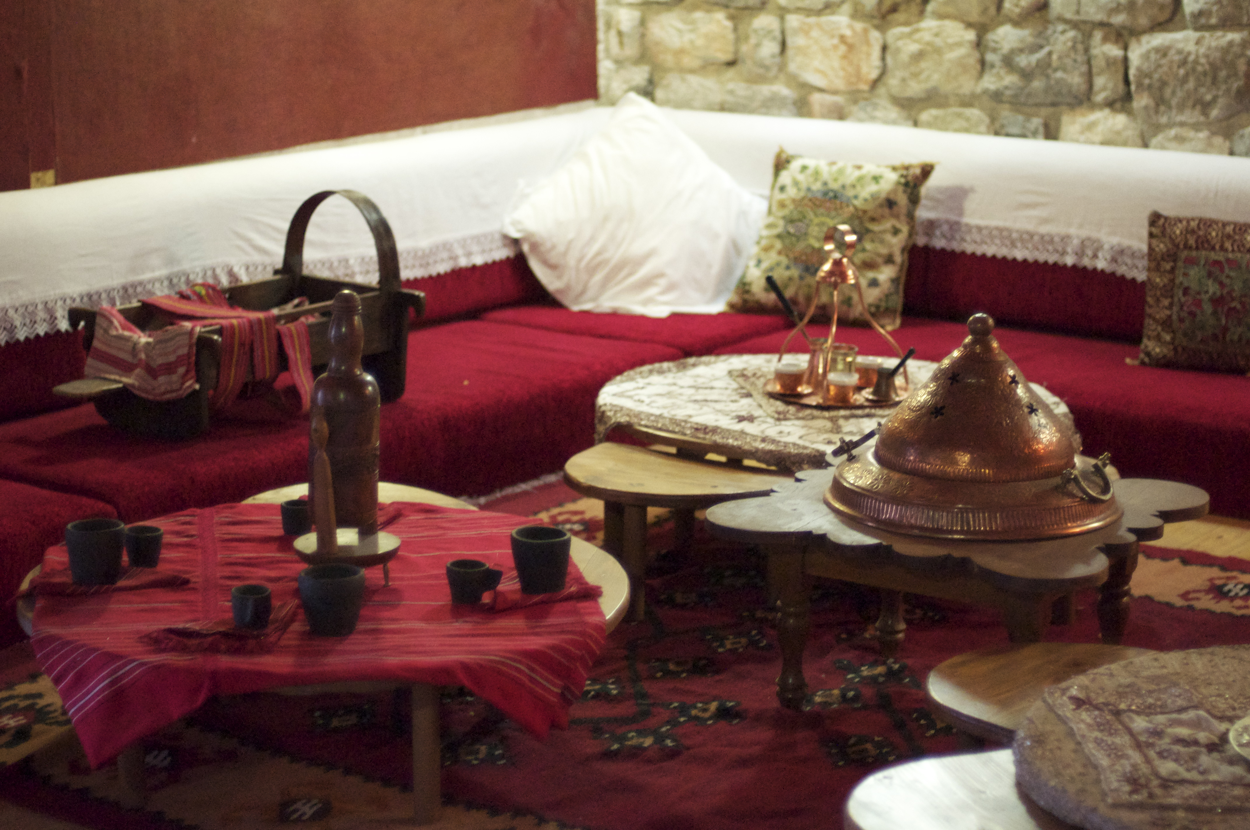 Typical albanian room in the Ethnographic Museum in Rozafa Castle, Shkodra.